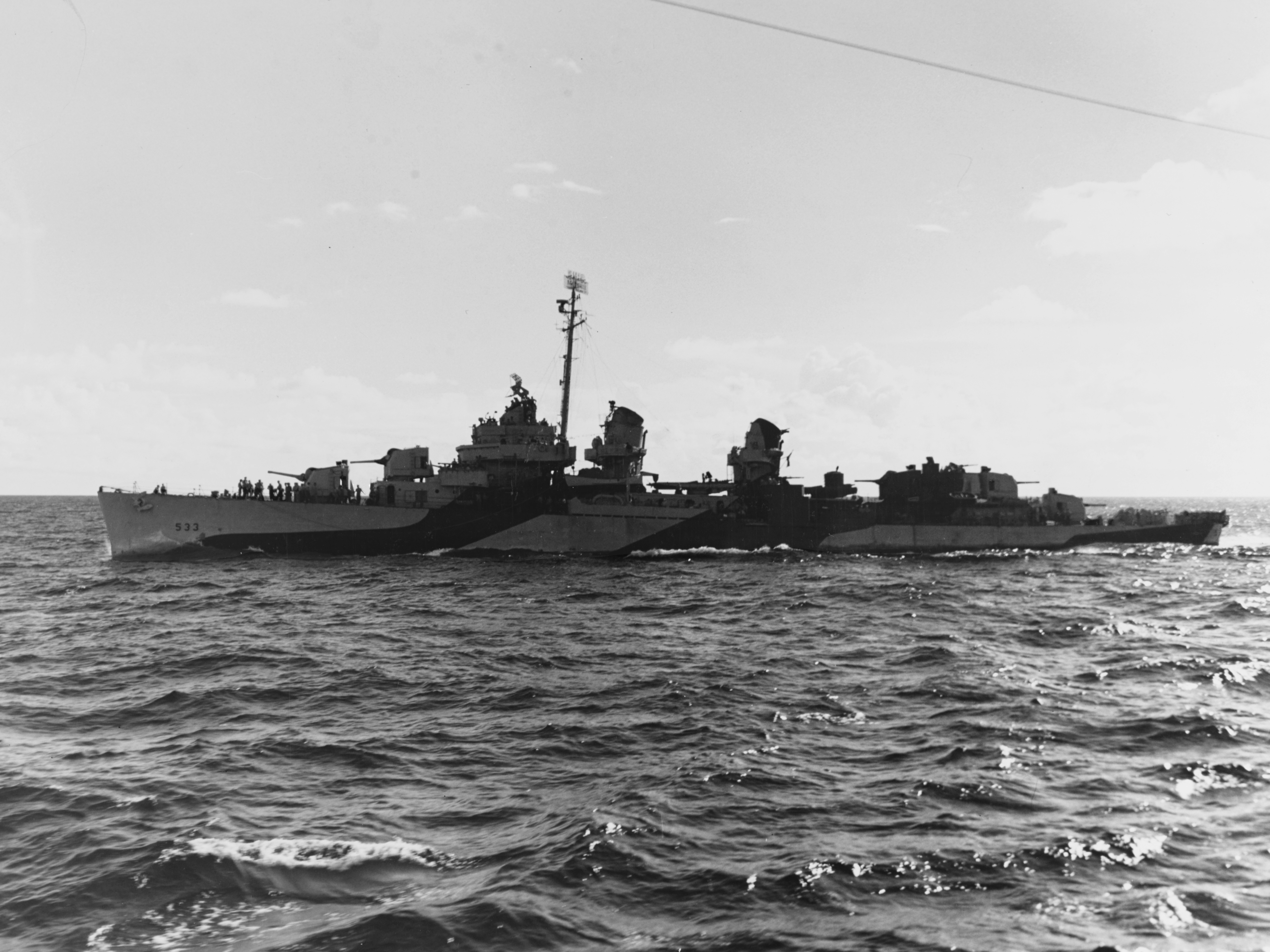 The U.S. Navy destroyer USS Hoel (DD-533) photographed from the escort carrier USS Kwajalein (CVE-98), during operations in the South Pacific, 10 August 1944. Hoel's is painted in Camouflage Measure 32, Design 1D.